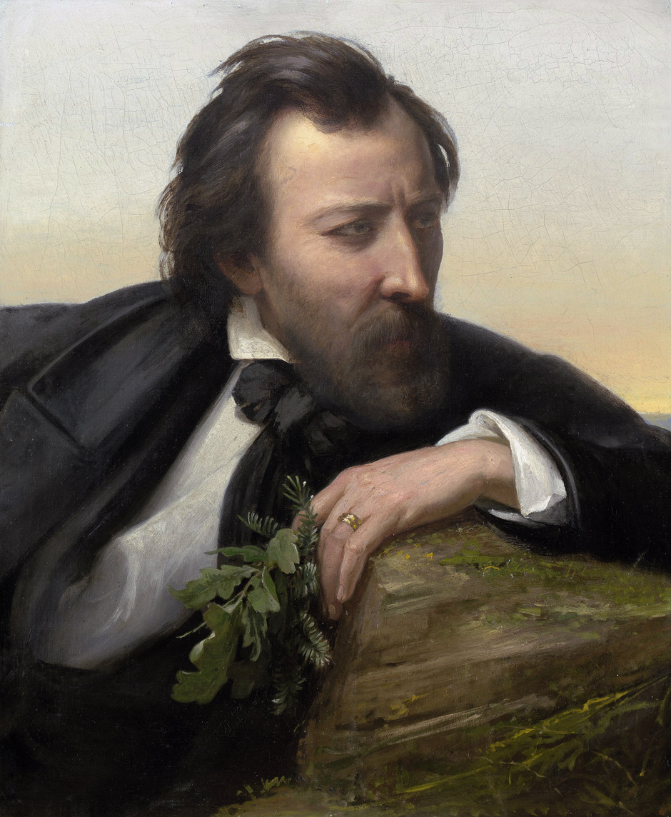 August Wilhelm Ferdinand Schirmer (1802 Berlin - 1866 Nyon) oil on canvas ca 1850 63.5 x 52.5 cm